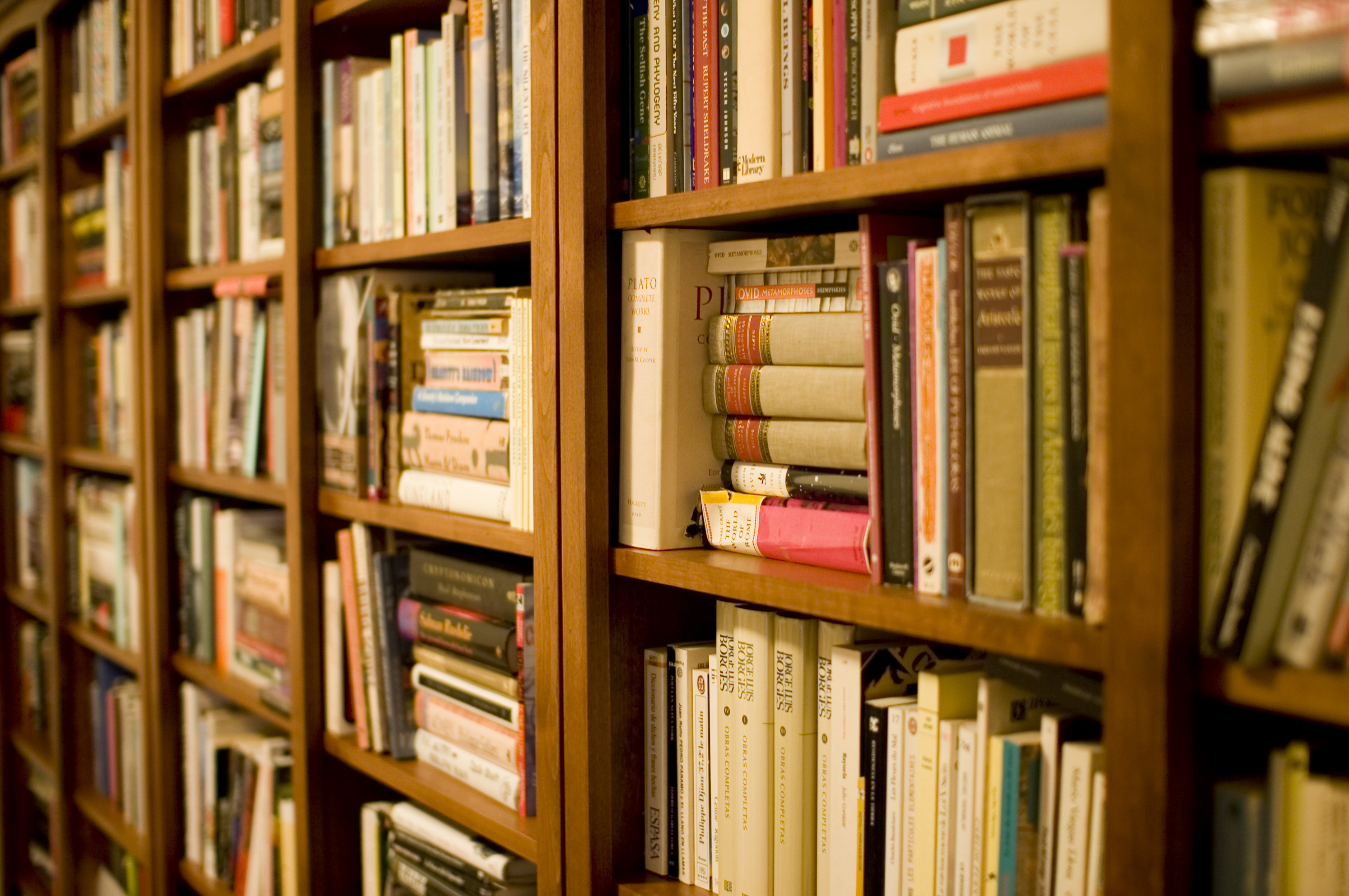 A Bookshelf. Among the works: Ovid's Metamorphoses, some works of Jorge Luis Borges, the complete works of Plato and Aristotle, The Selfish Gene of Richard Dawkins, and the Hacket edition of the complete works of Plato by John M. Cooper (philosopher)